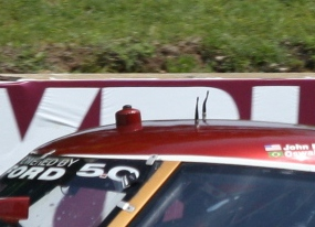 A RaceCam installed on the roof of the Daytona Prototype car of Ozz Negri / John Pew.